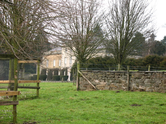 Hauxwell Hall A largely 18th century country house built for the Dalton family.